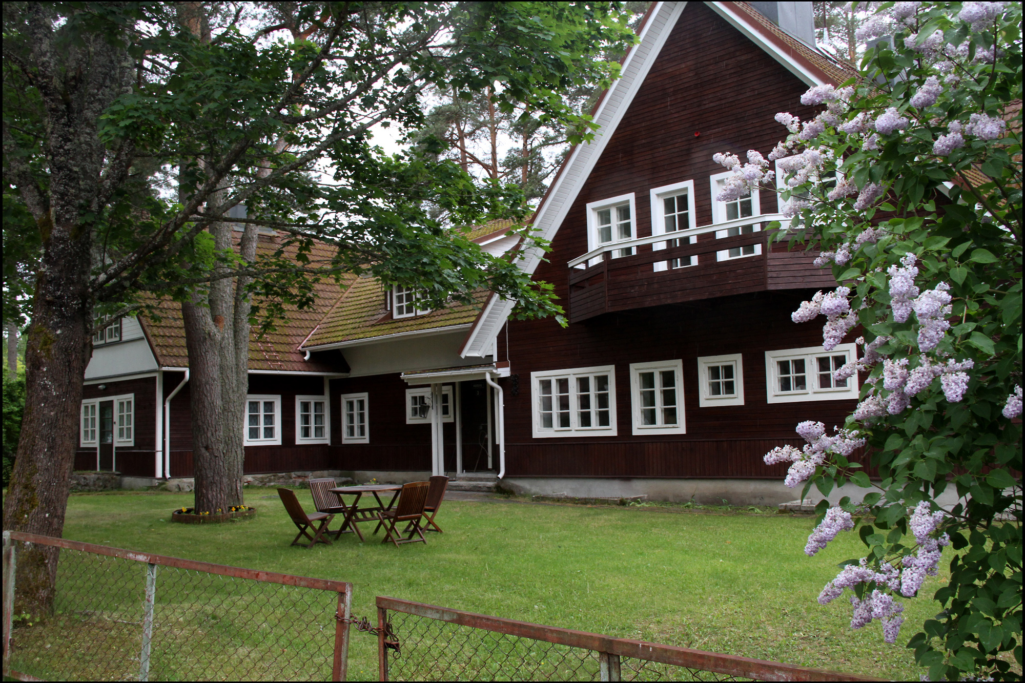 Village of Vösu, Estland